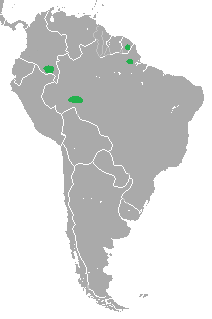 Known areas in which Tapirus kabomani occurs. Basic map from File:BlankMap-World.png and range data from here[1]